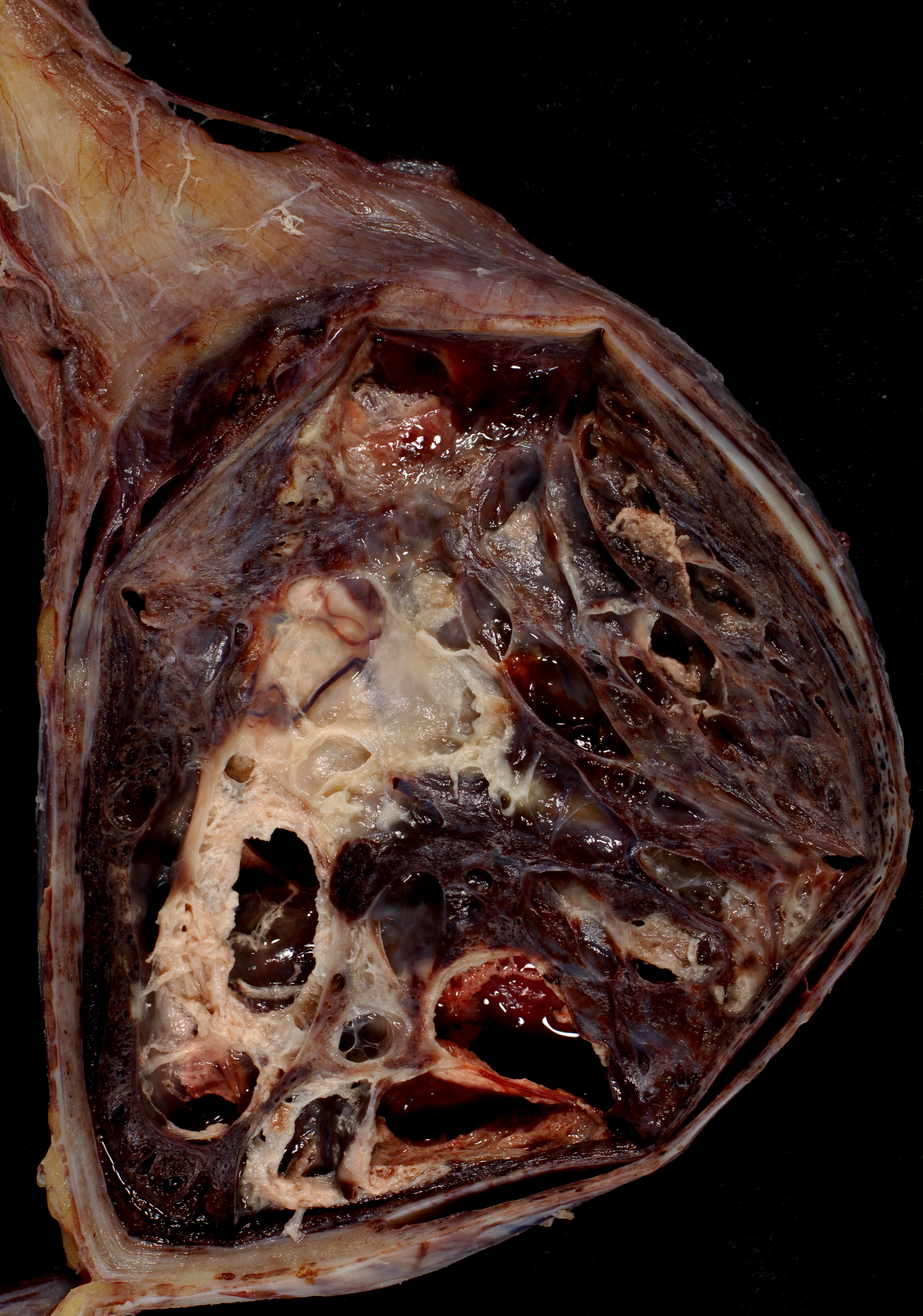 This 21-year-old male was aware of this 10-cm testicular mass for several months before he sought attention. His serum beta-HCG and alpha-fetoprotein were elevated. CT scan showed enlarged retroperitoneal and mesenteric lymph nodes, suspicious for malignancy. The urologist performed an orchiectomy. The cut surface of the tumor was soft and hemorrhagic. I intially put in 20 sections, but the tumor was almost entirely necrotic. There were a few microscopic foci of what appeared to be syncytiotrophoblast. I put in 30 more sections and am awaitng those slides. Pathological and histological images courtesy of Ed Uthman at flickr.